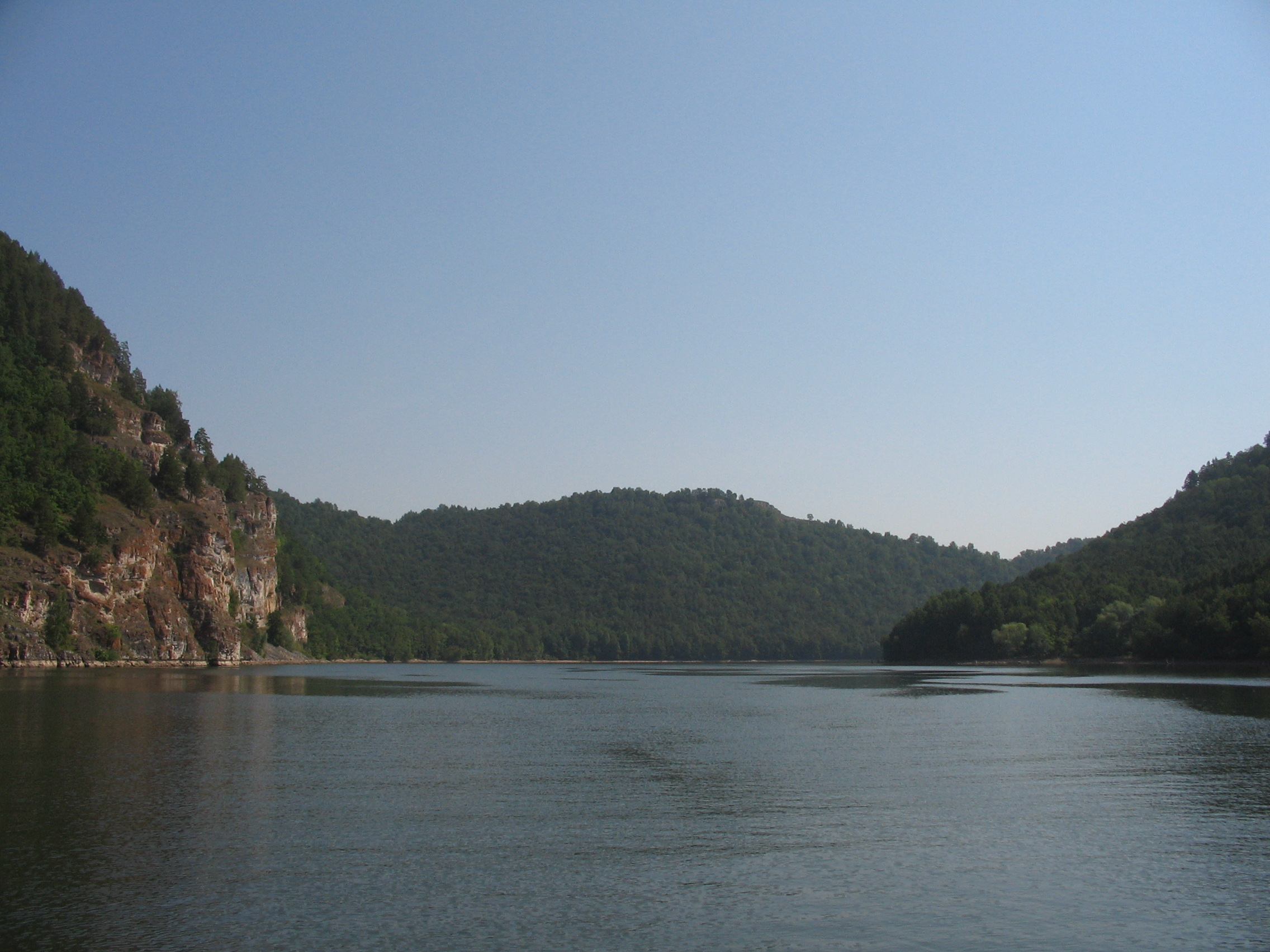 Nugush water reservoir storage in Bashkortostan of Russian Federation